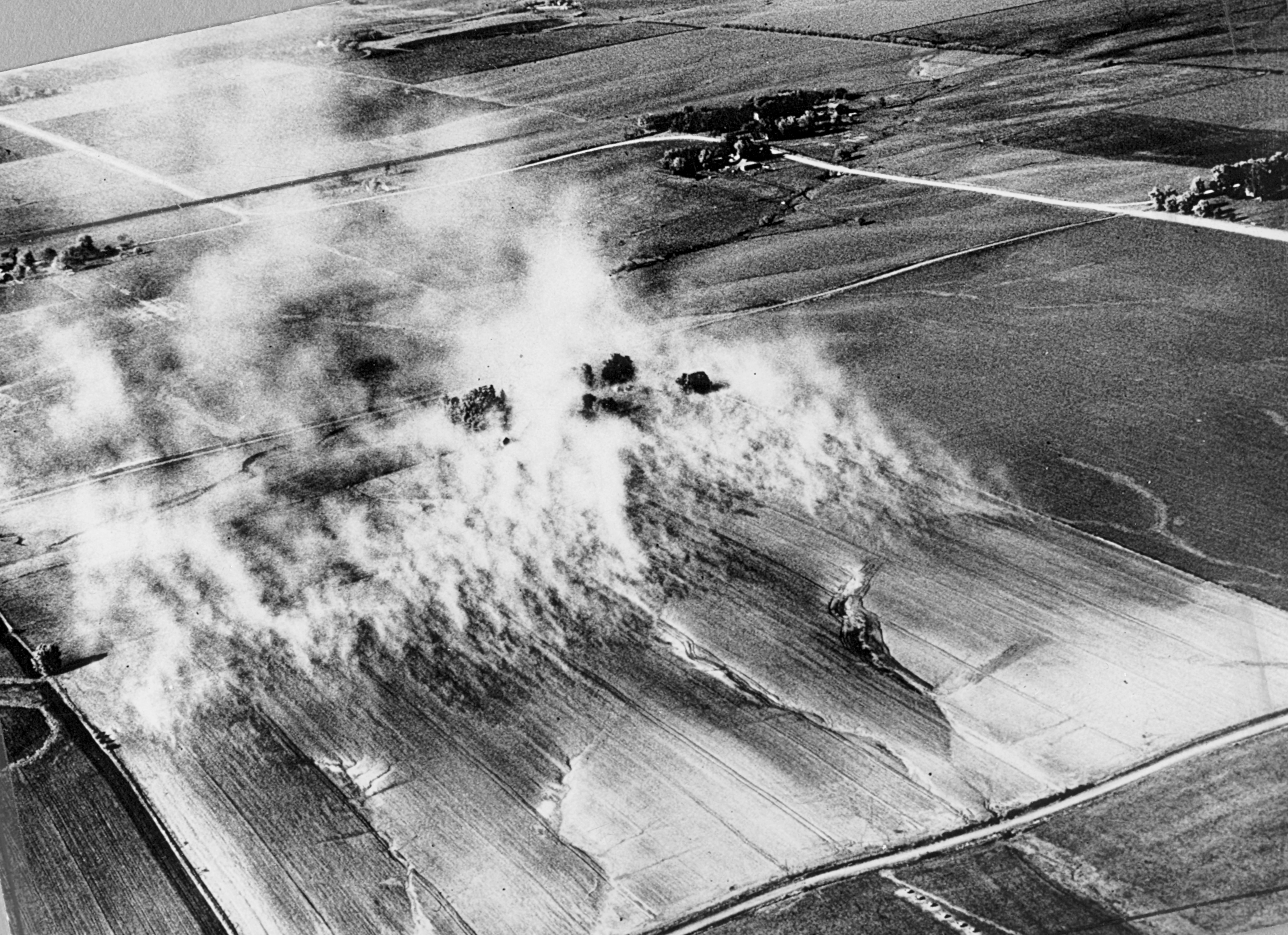 Dust blown by the wind from an Iowa field that was not planted to grass to prevent soil erosion in 1890. – Photo courtesy of National Archives and Records Administration.